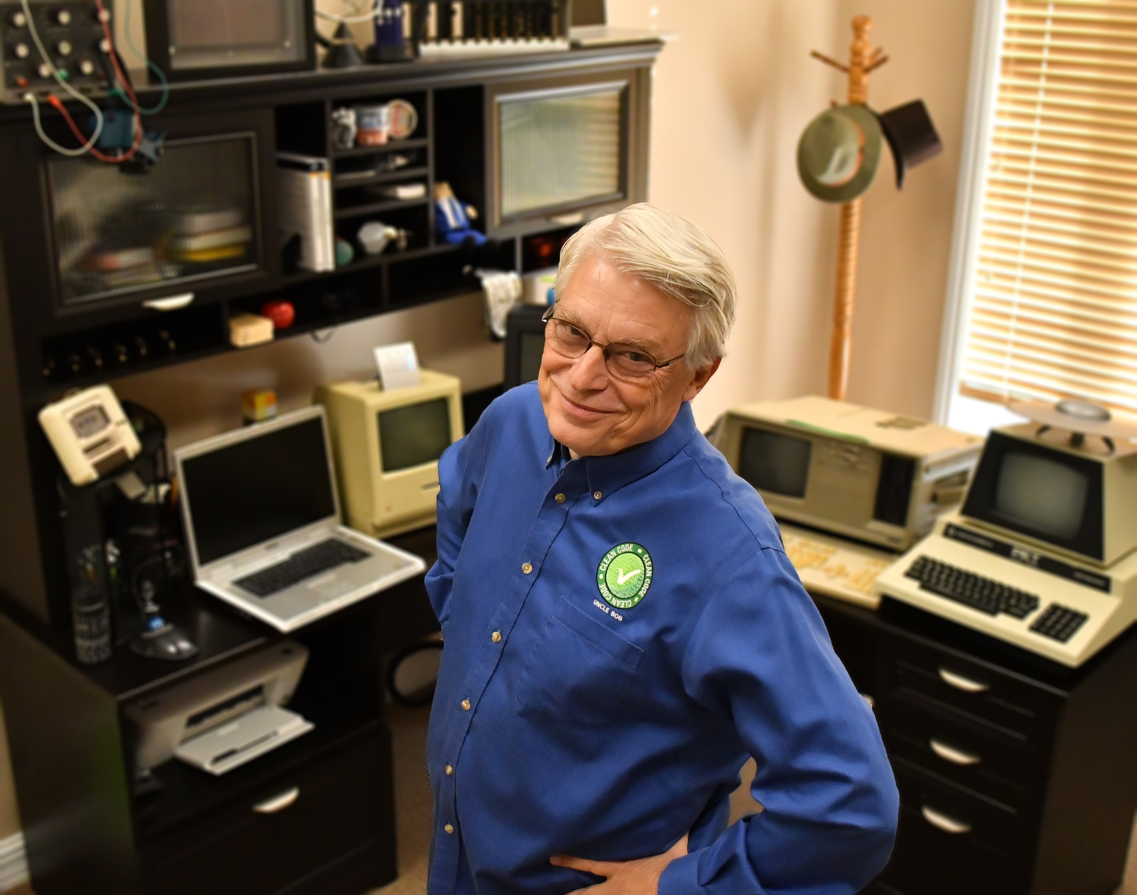 Uncle Bob in his office with computers